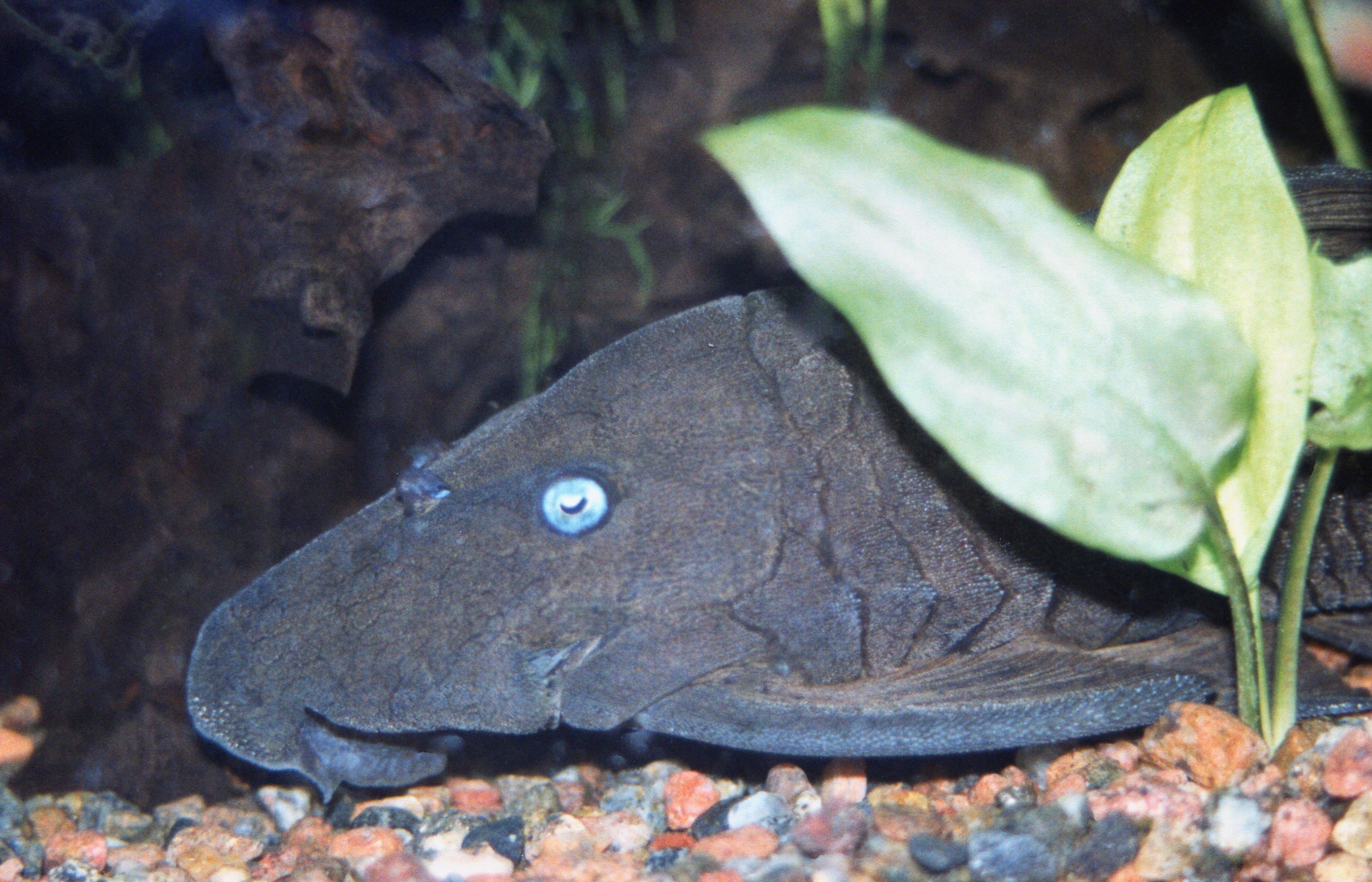 I named him Rambo. He came with the aquarium I bought when 10 years old or so, he was already big. When I was about 17 he died, shortly after which I sold my aquarium as he was 'the fish of my life'. :-)